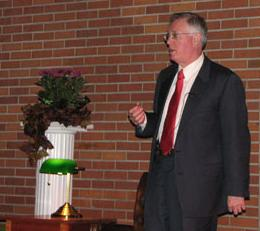 Cut image from File:Phillip Margolin.jpg, based on the original image on Flickr, by UofSLibrary